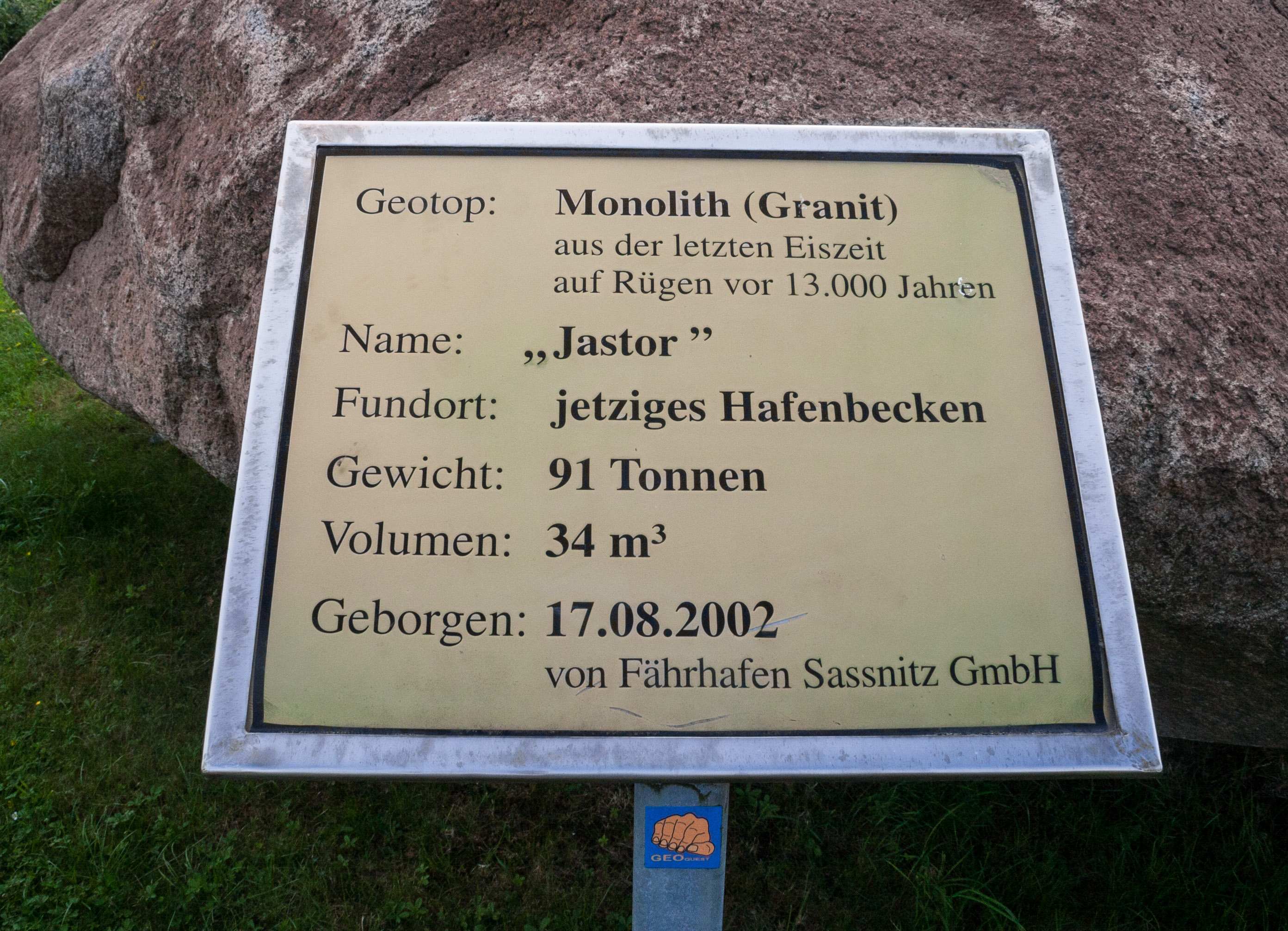 Findling Jastor, Infotafel